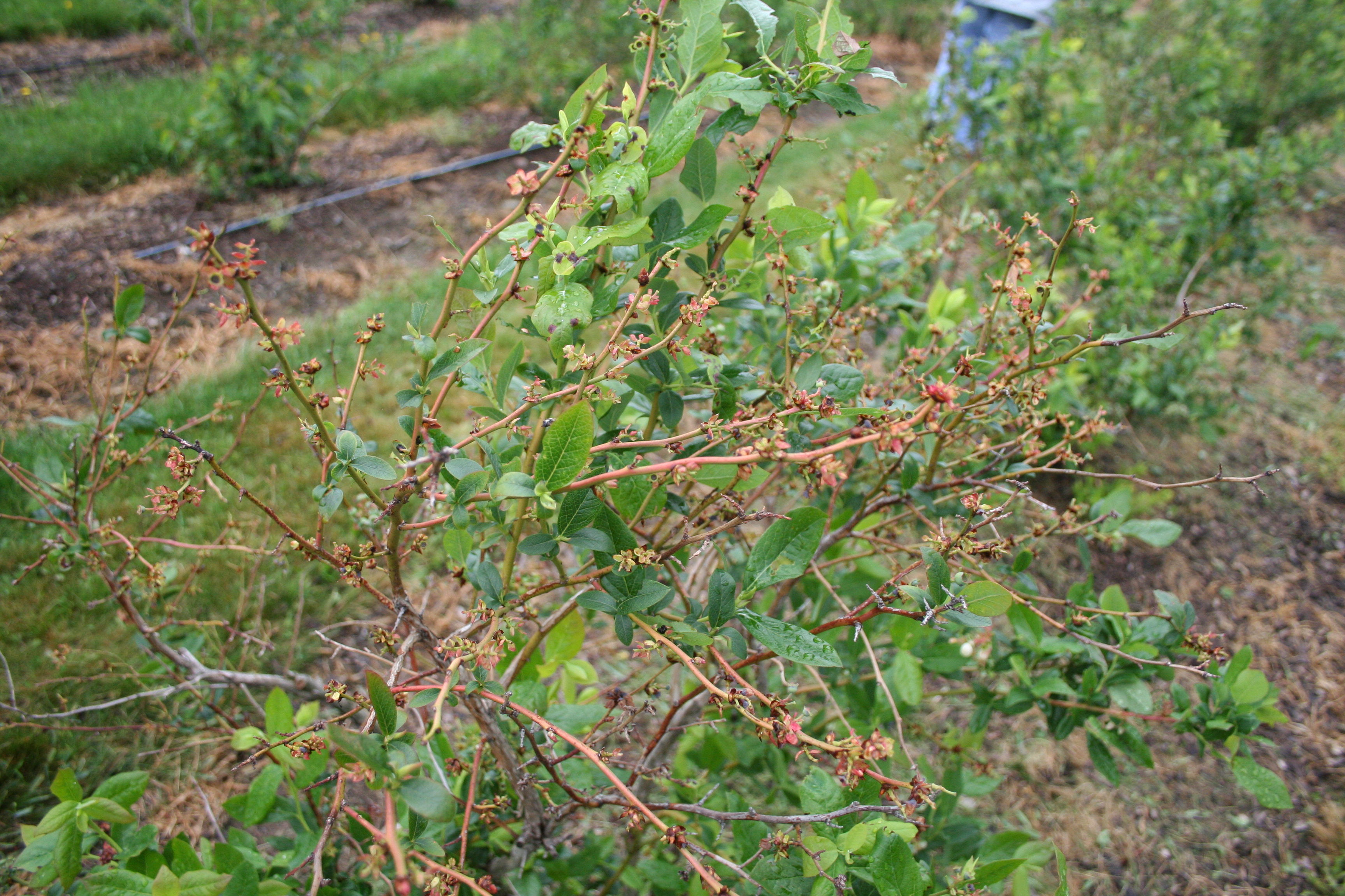 Blueberry bush infected by blueberry shock virus